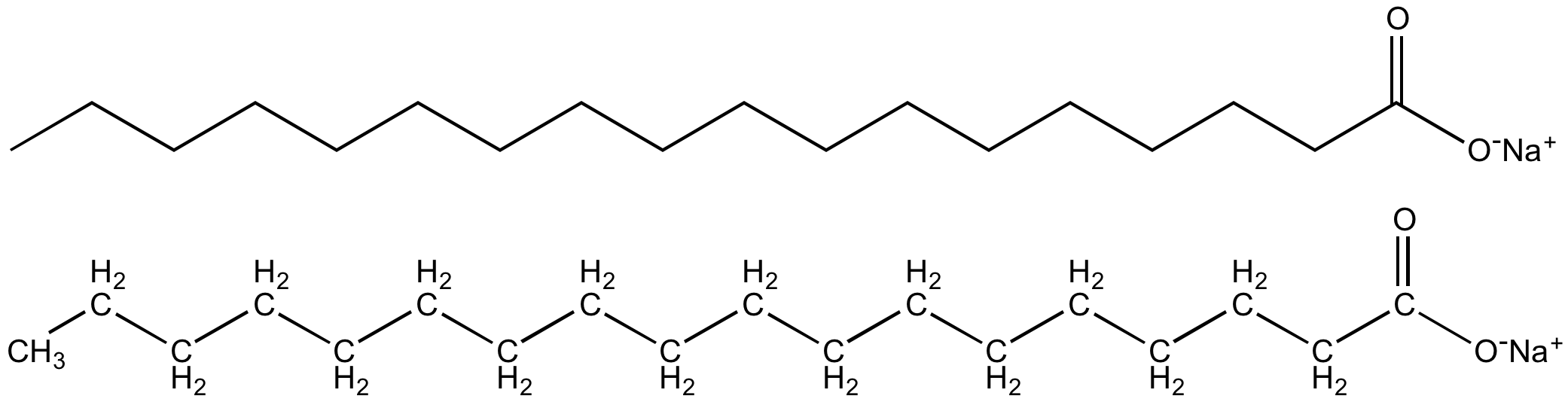 two images of the chemical structure of sodium stearate, the main ingredient in soaps